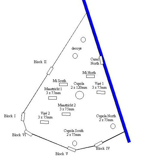 Map of Eben-Emael